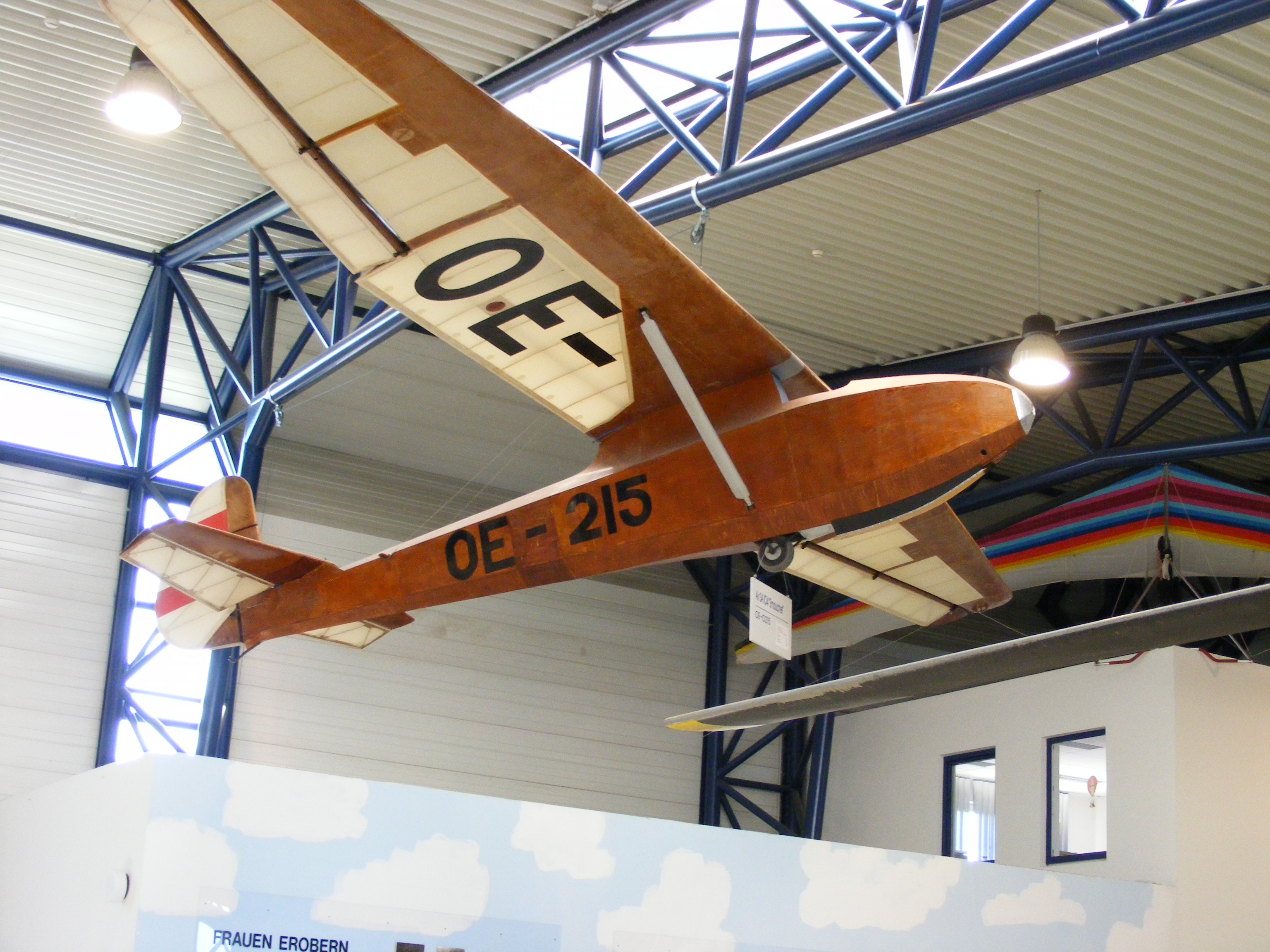 Air SA-104 Emouchet at aviaticum museum, Austria